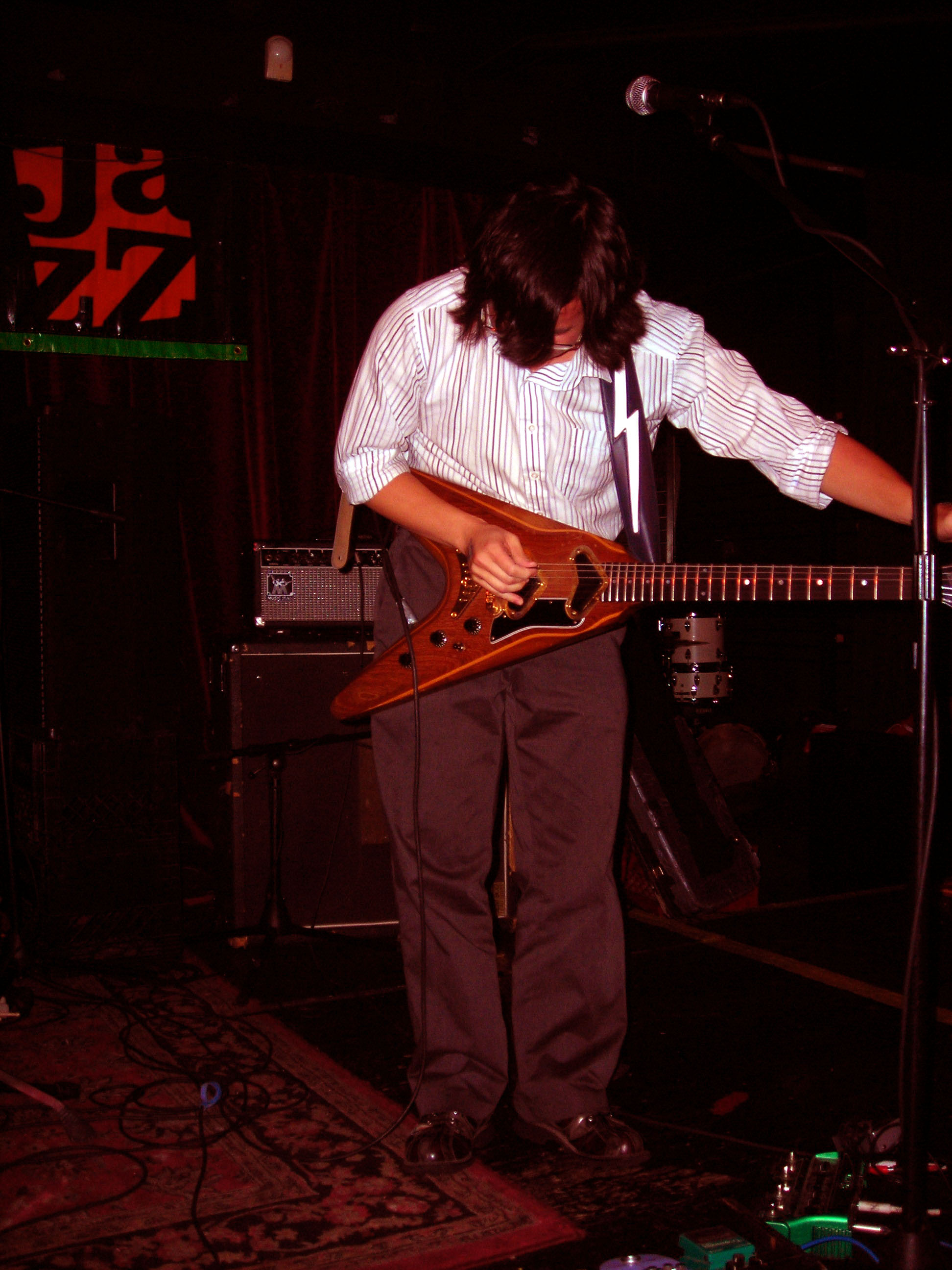 Lead guitarist of Vancouver indie rock band in medias res Ash Poon warms up before a show at the Media Club in Vancouver.